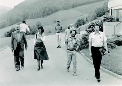 Wieslaw Szlenk (left), Alexandra Bellow, Michael Keane (right), Oberwolfach 1978